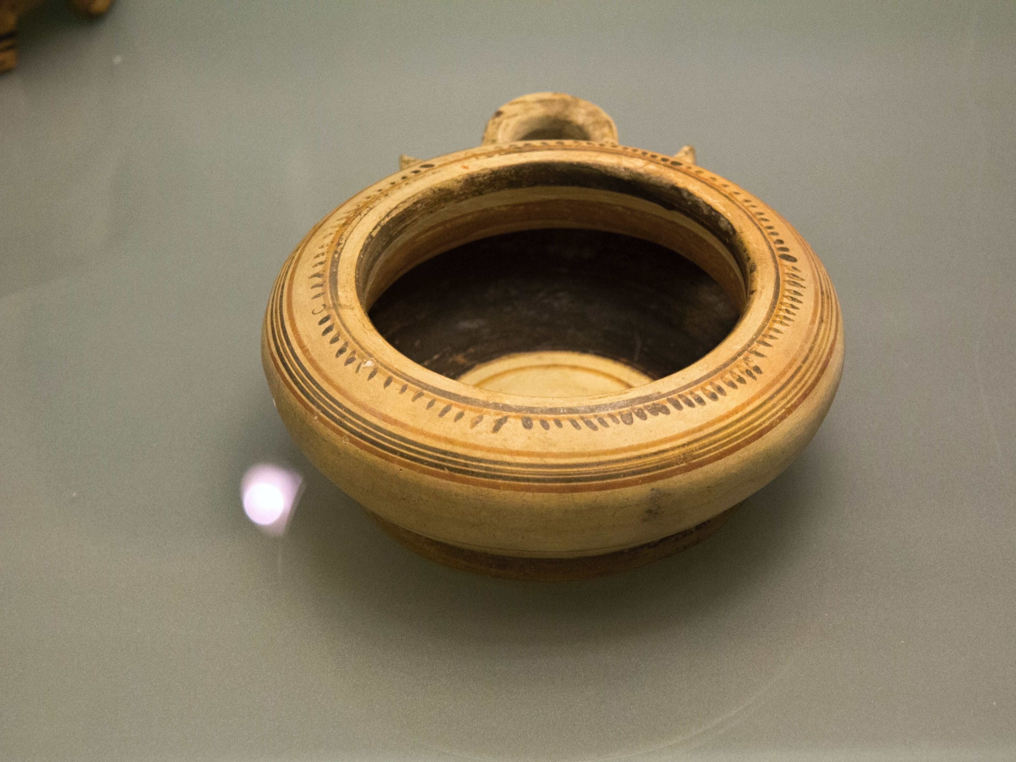 Kothon (or exaleiptron). Everted rim with inward slanting face prevented content spillage. 550 - 500 BC. NG Prague, Kinský Palace, NM-H10 1660.